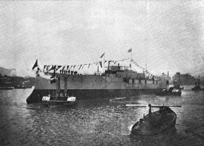 Soon after the launch of the Brazilian battleship Minas Geraes.